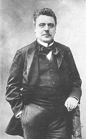 French playwright Henry Becque (1837-1899) photographed by Nadar (1820-1910)